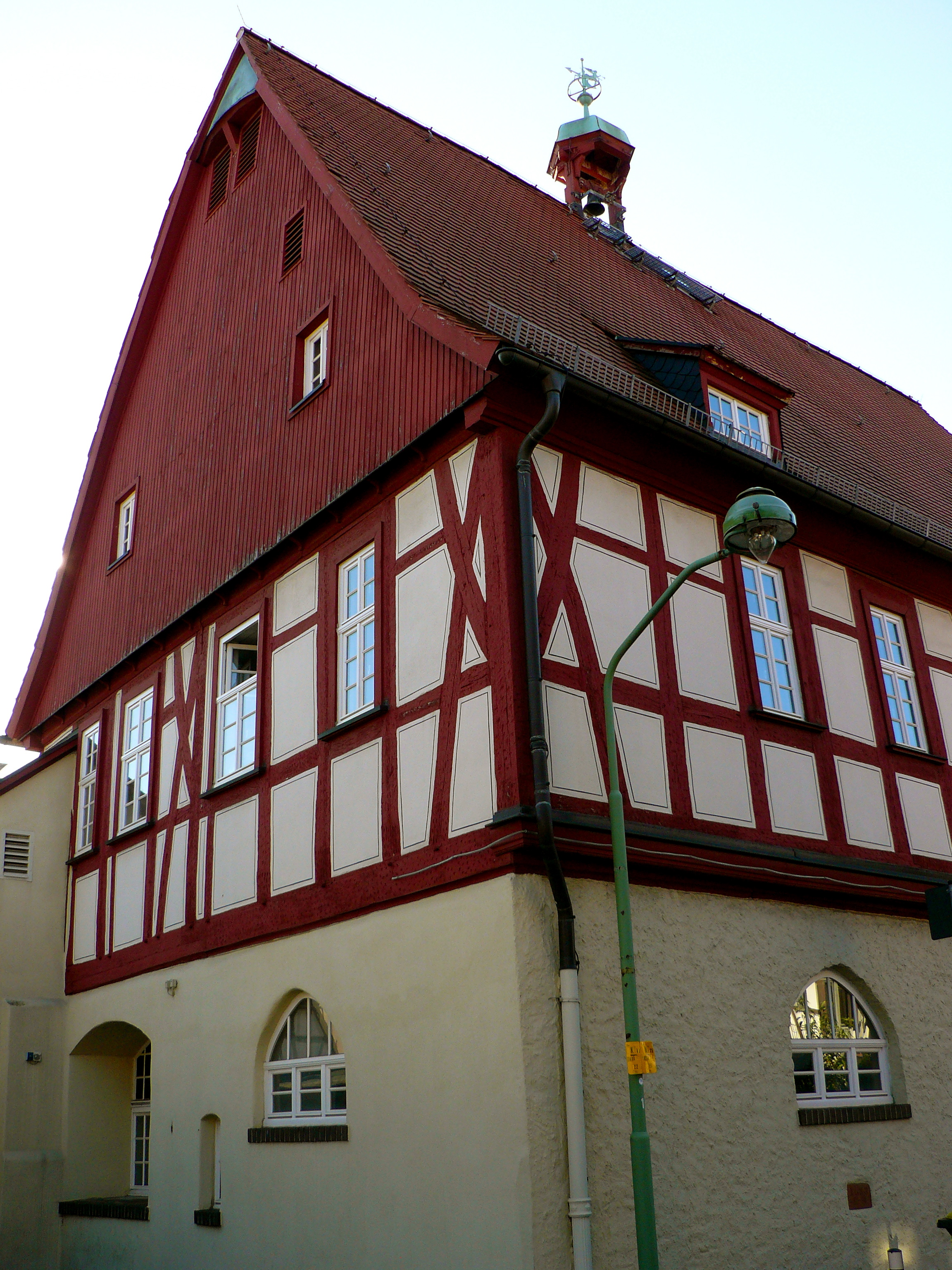 Old town hall of Seckbach, Frankfurt, Hesse, Germany